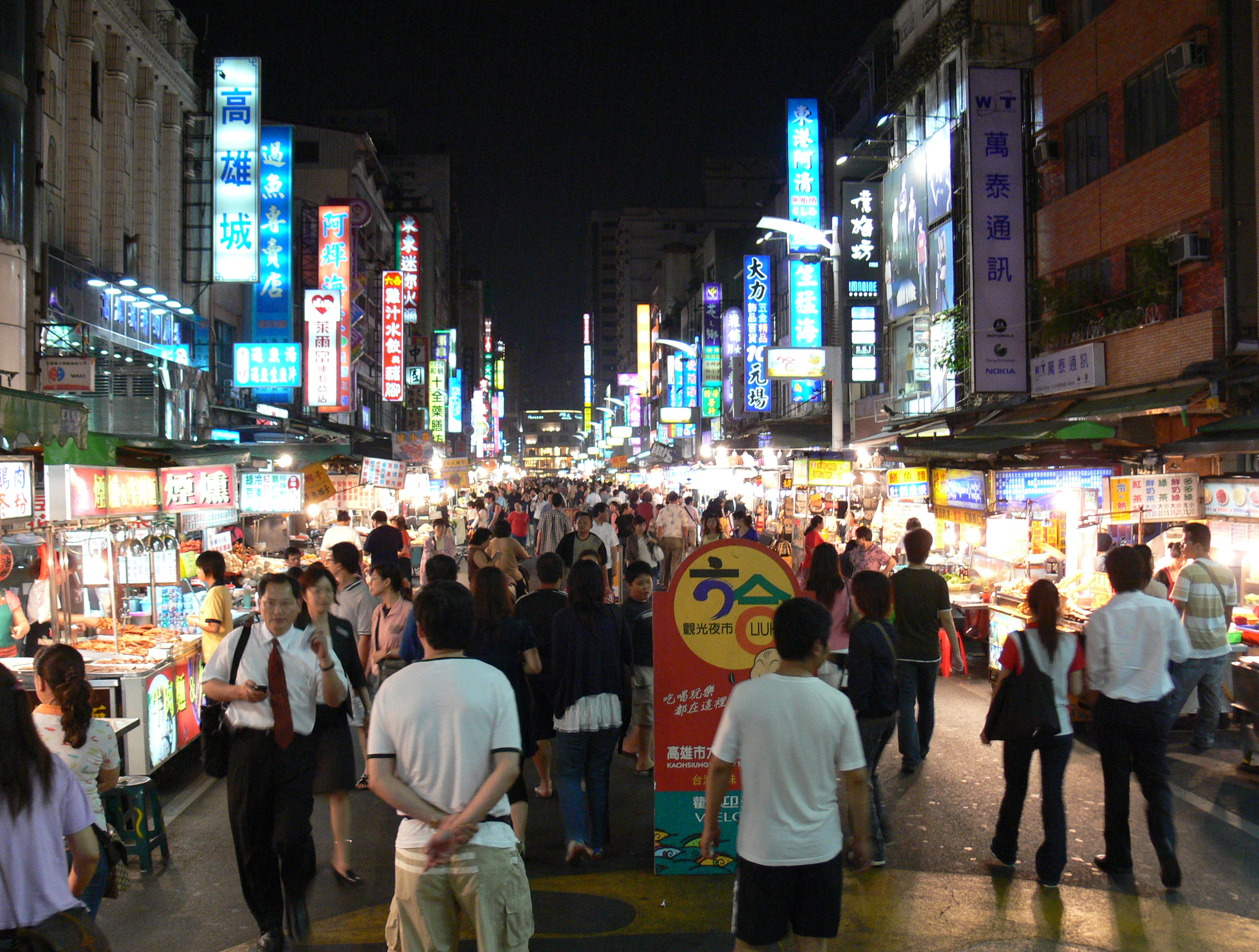 Lioho Night Market in Kaohsiung, Taiwan.